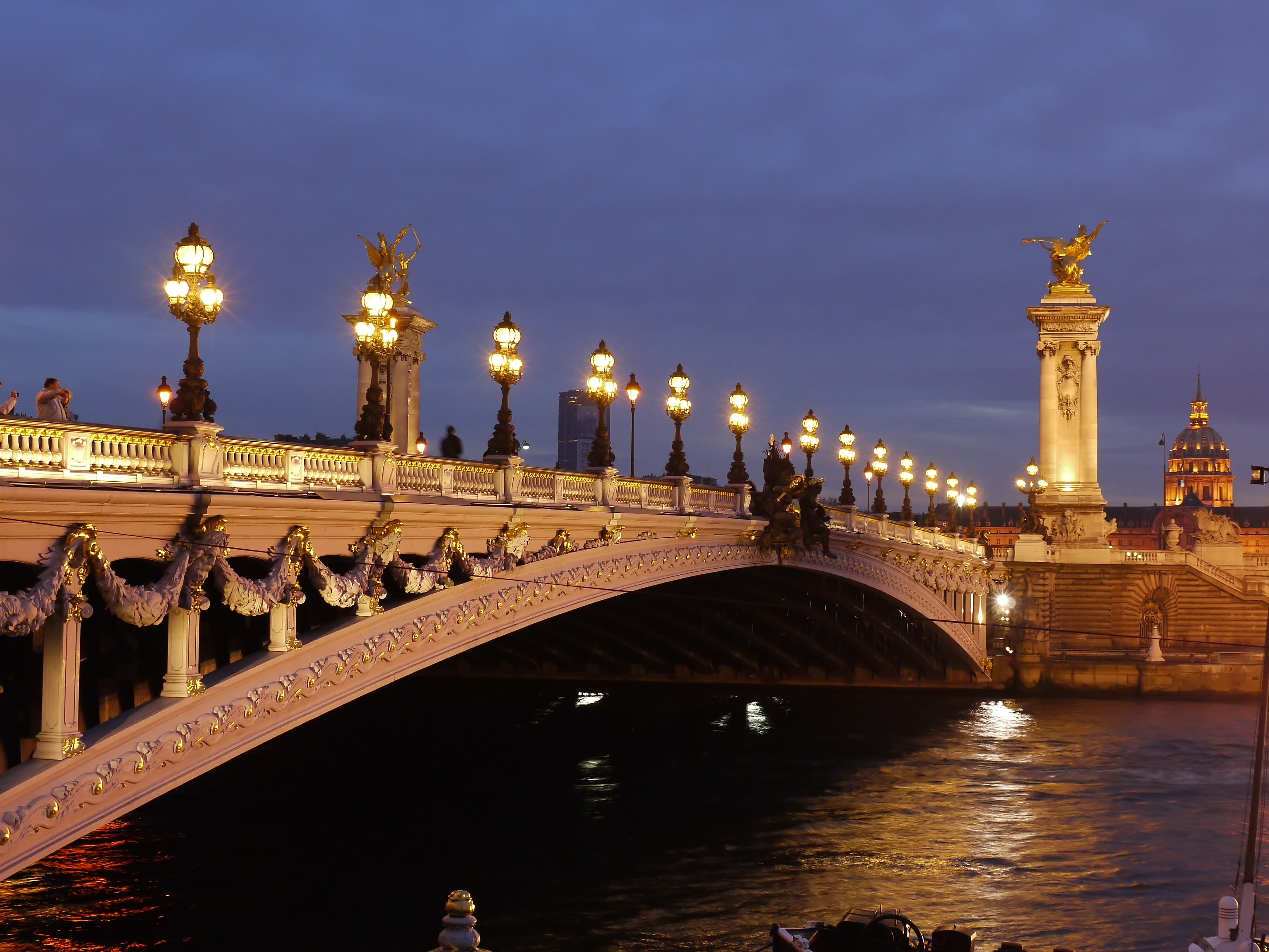 Pont (bridge) Alexandre III, Paris (France)